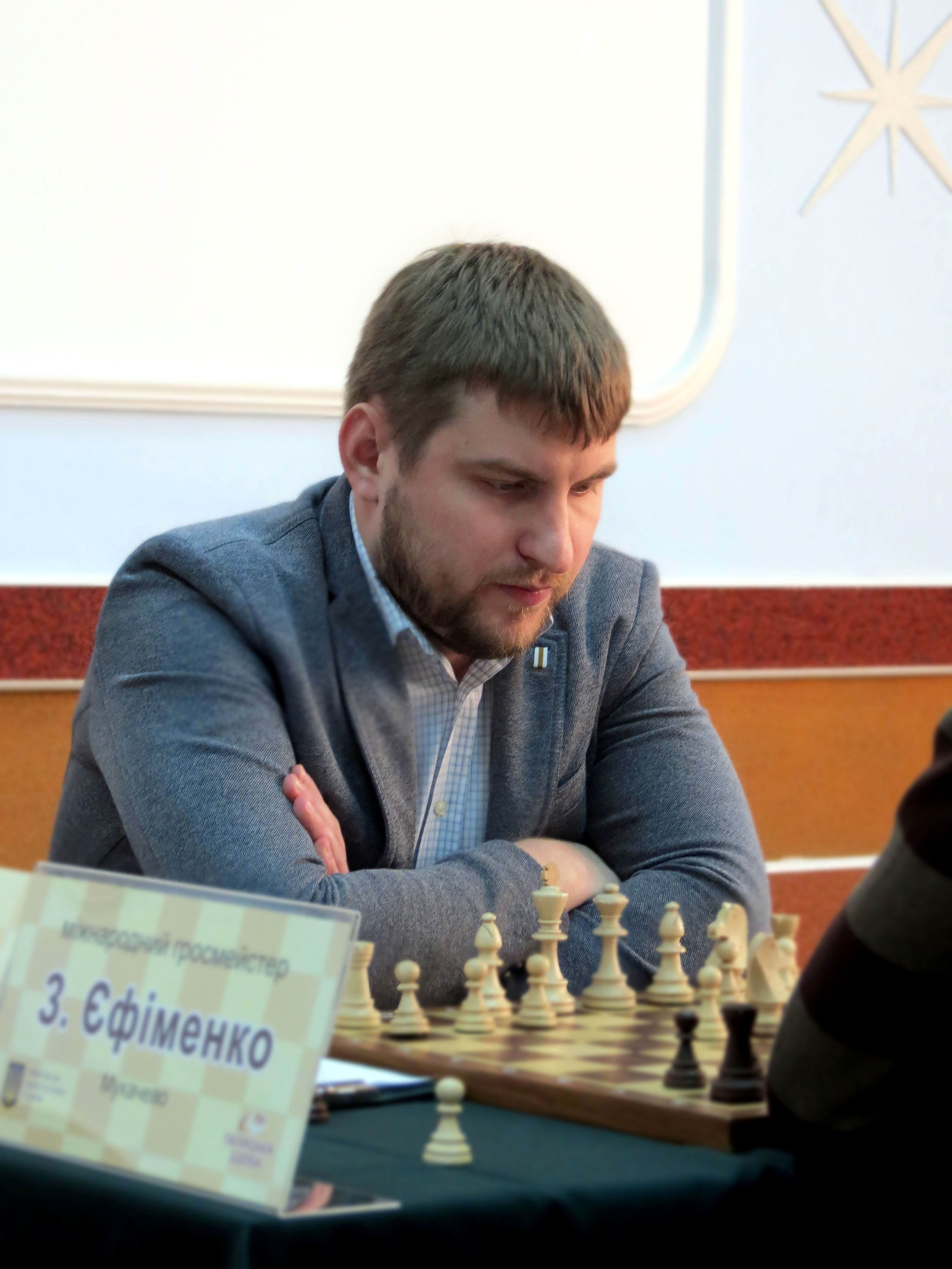 Kovchan Olexander, ukraine championship (december 2015)